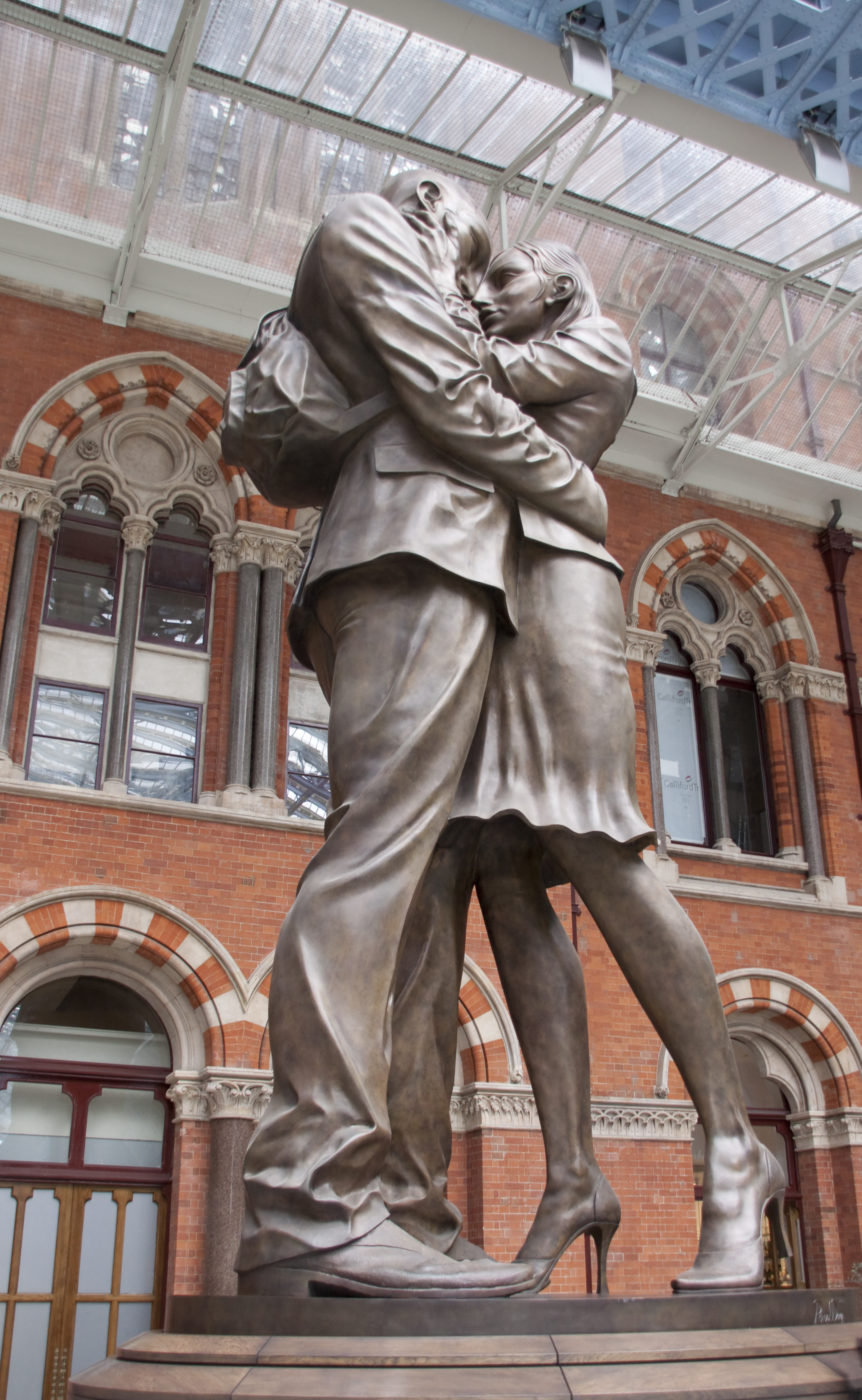 Brief Encounter St Pancras